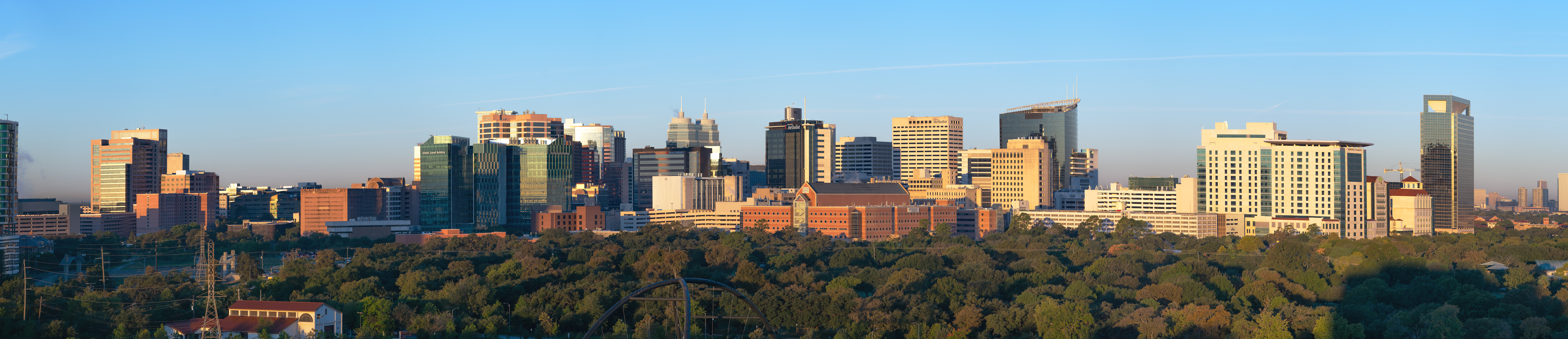 View of the Texas Medical Center from the east. Hermann Park is in the foreground.